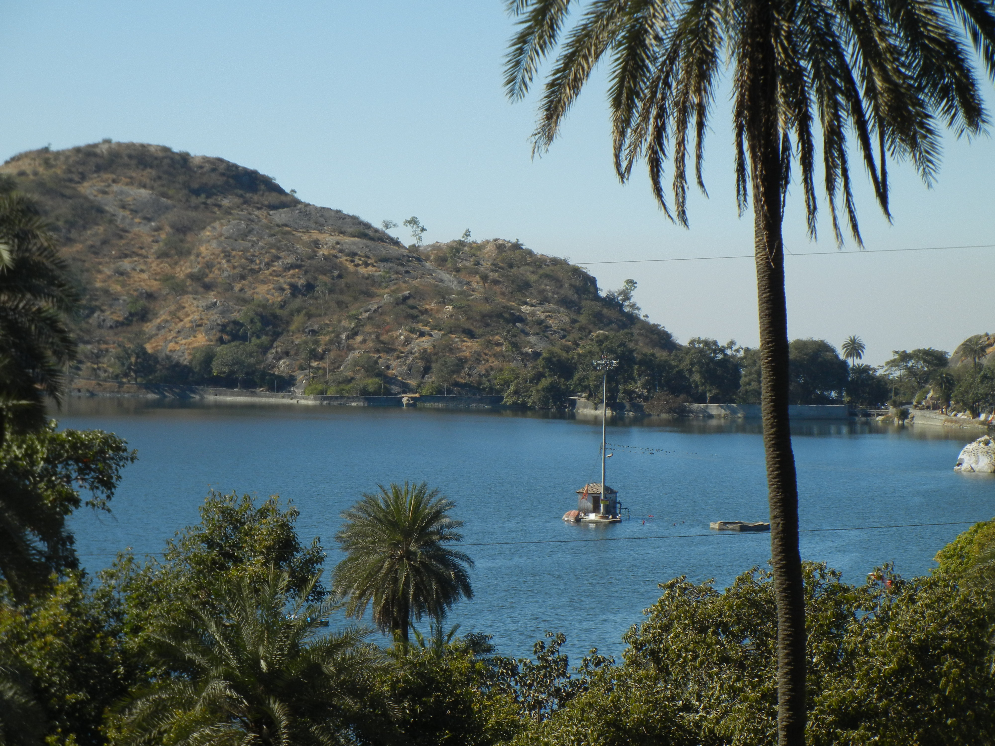 A view of the Nakki Lake, Mount Abu Wildlife Sanctuary, Rajasthan.